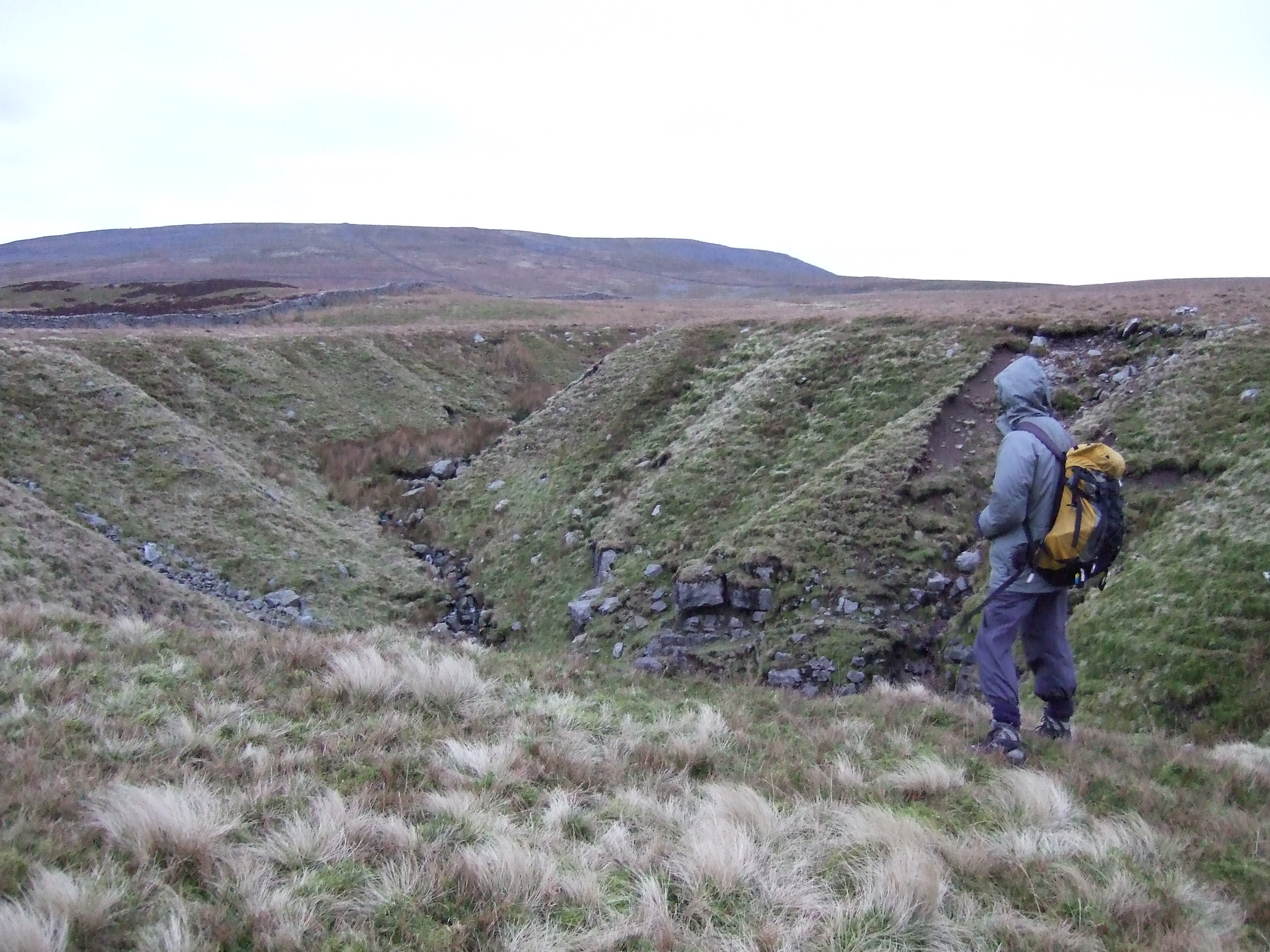 Ireby Fell Cavern entrance sinkhole